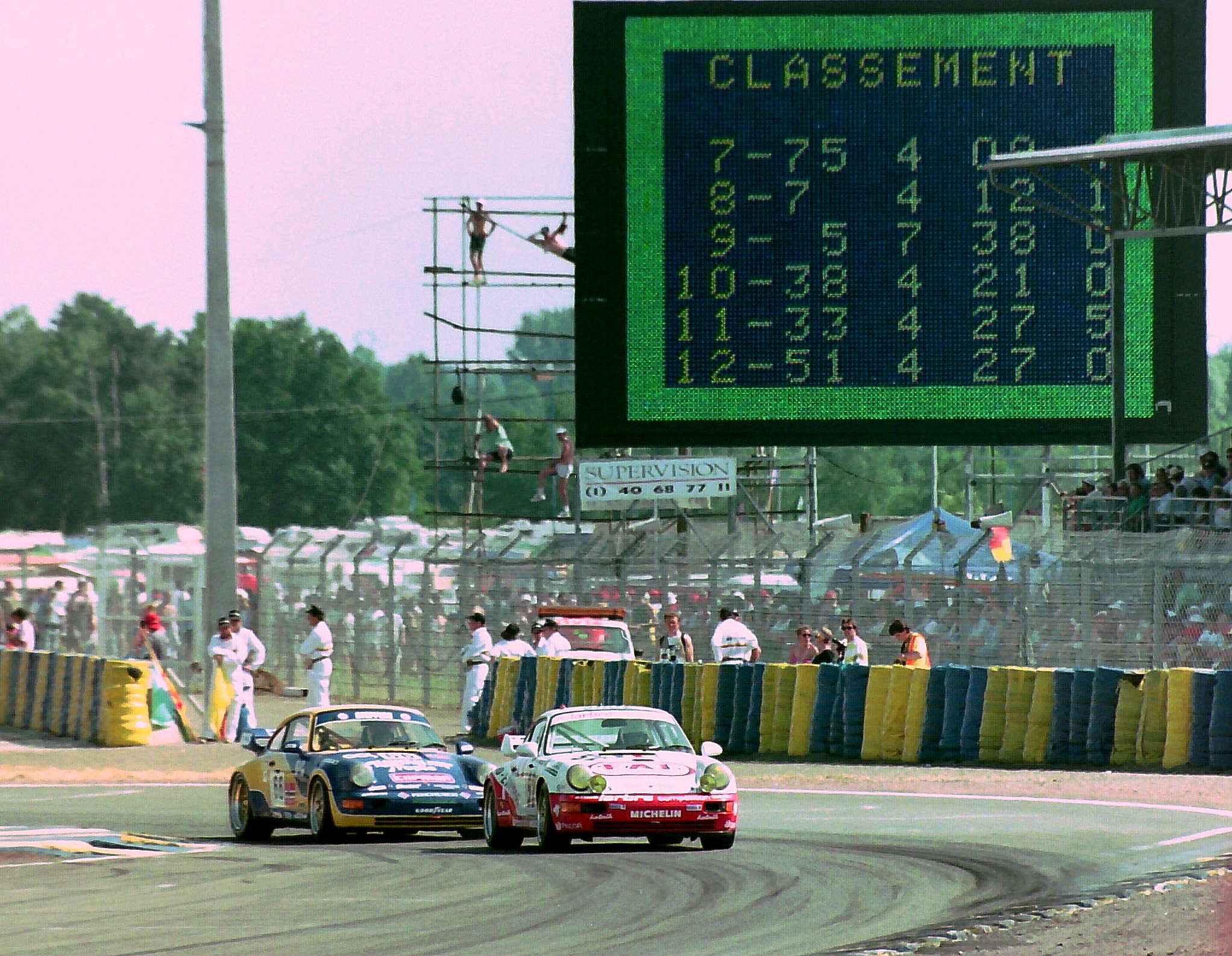 Porsche 911 Carrera RSR - Jesus Pareja, Dominique Dupuy & Carlos Palau leads Porsche 911 Carrera RSR - Ray Bellm, Harry Nuttall & Charles Rickett out of Ford at the 1994 Le Mans